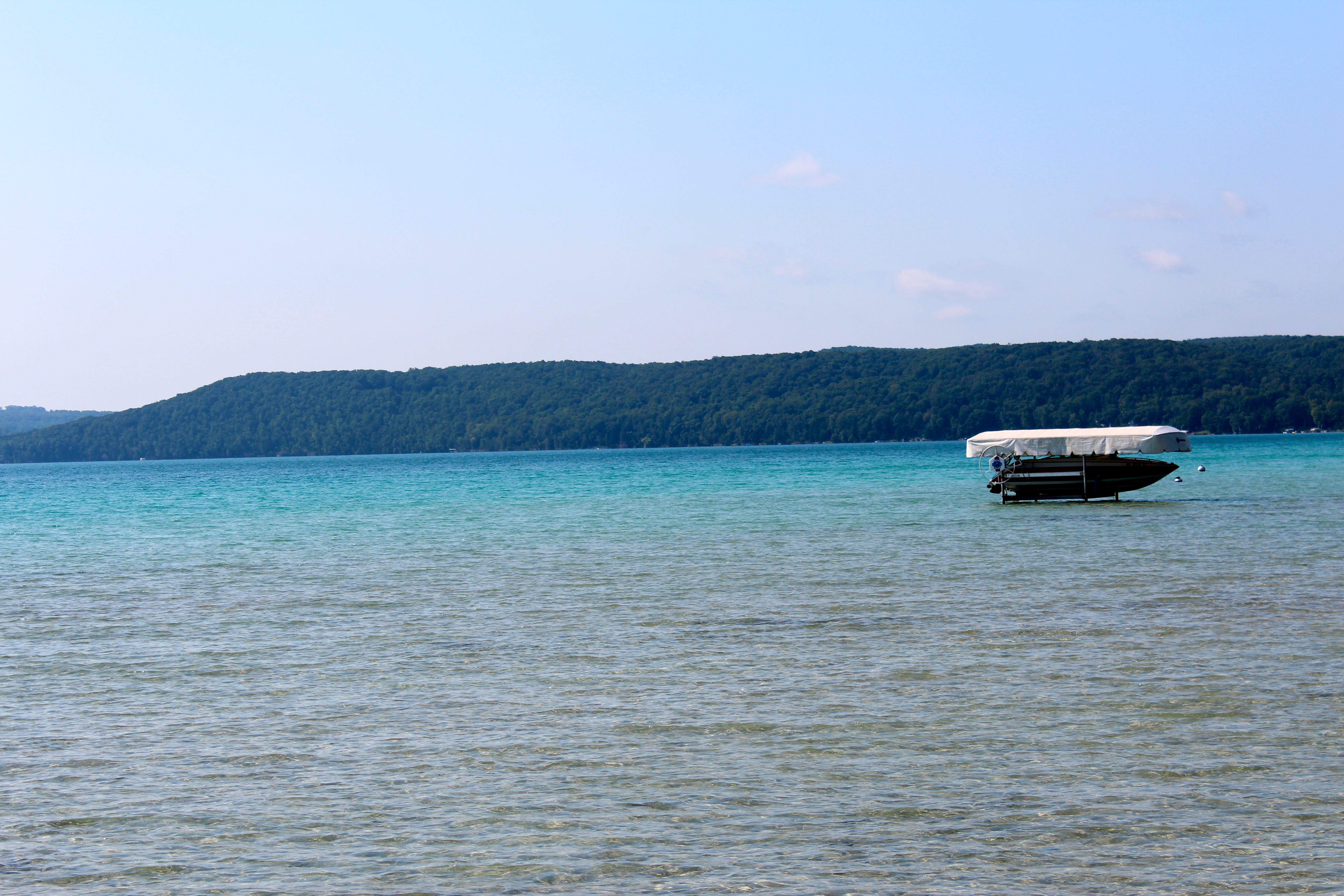 Photo of Big Glen Lake from West Shore